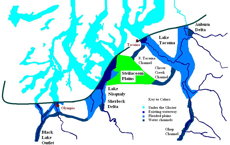 Glacial lakes Lake Tacoma, Lake Nisqually, & Lake Russell, per Washington Geological Survey, Bulletin No. 8; Glaciation of the Puget Sound Region; Fig 10; J. Harlen Bretz; Olympia, Wash, Frank M. Lamborn Public Printer; 1913